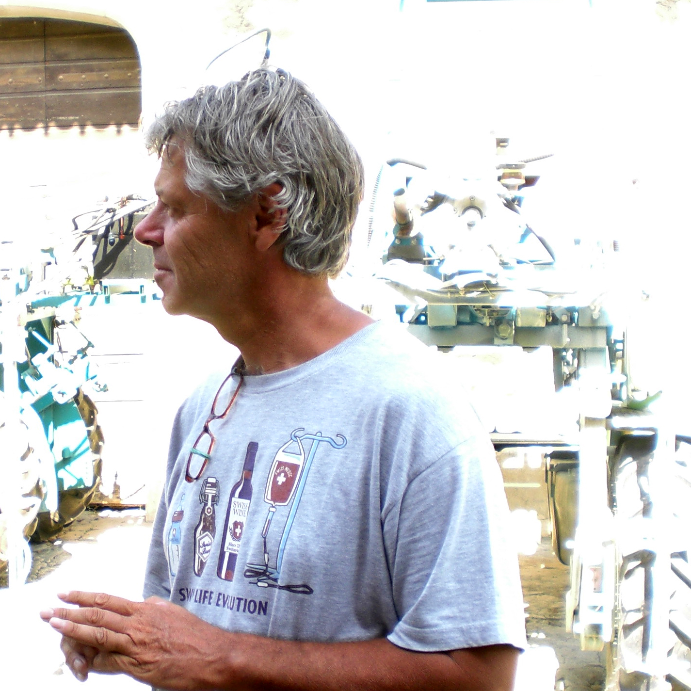 Jean-Pierre Pellegrin at his Domaine Grand’Cour, Peissy GE, Switzerland, July 2015